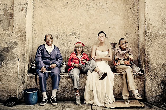 destination wedding in Cuba